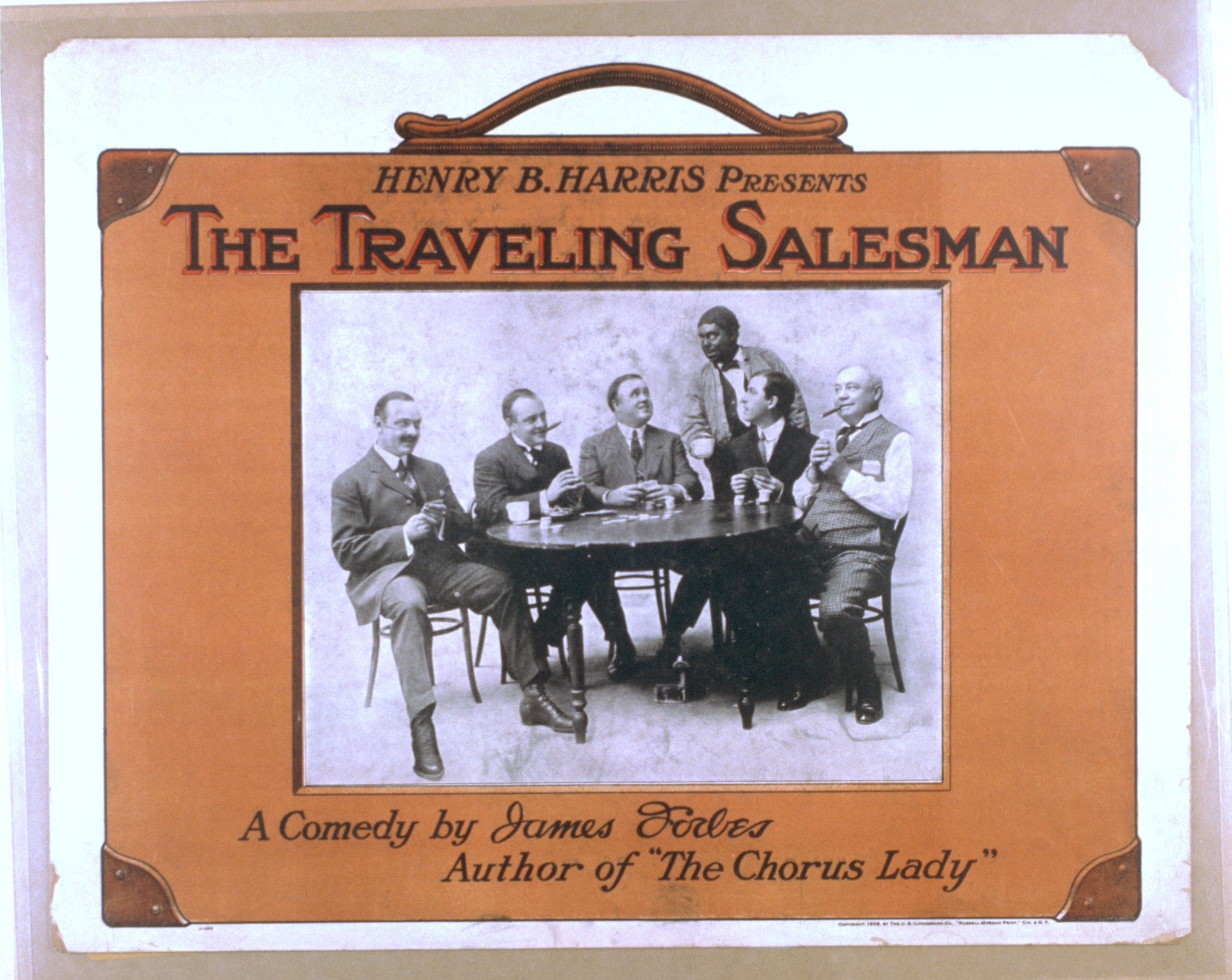 Title: Henry B. Harris presents The traveling salesman a comedy by James Forbes, author of The chorus lady. Abstract: 1 print : color and halftone lithograph ; sheet 45 x 57 cm. (poster format)